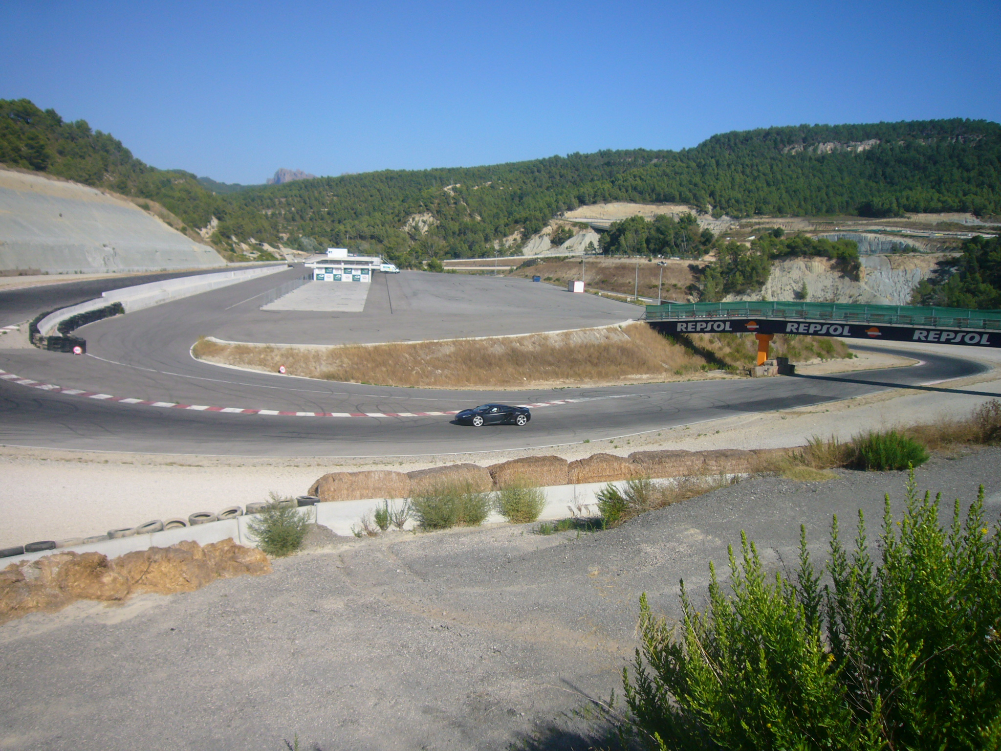 Parcmotor Castellolí . High speed circuit, and a black racing car